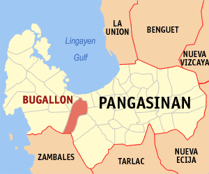 Map of Pangasinan showing the location of Bugallon